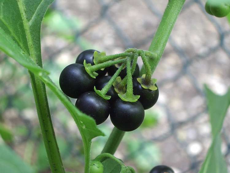 Macro of ripe black fruits of the Black Nightshade (Solanum nigrum)